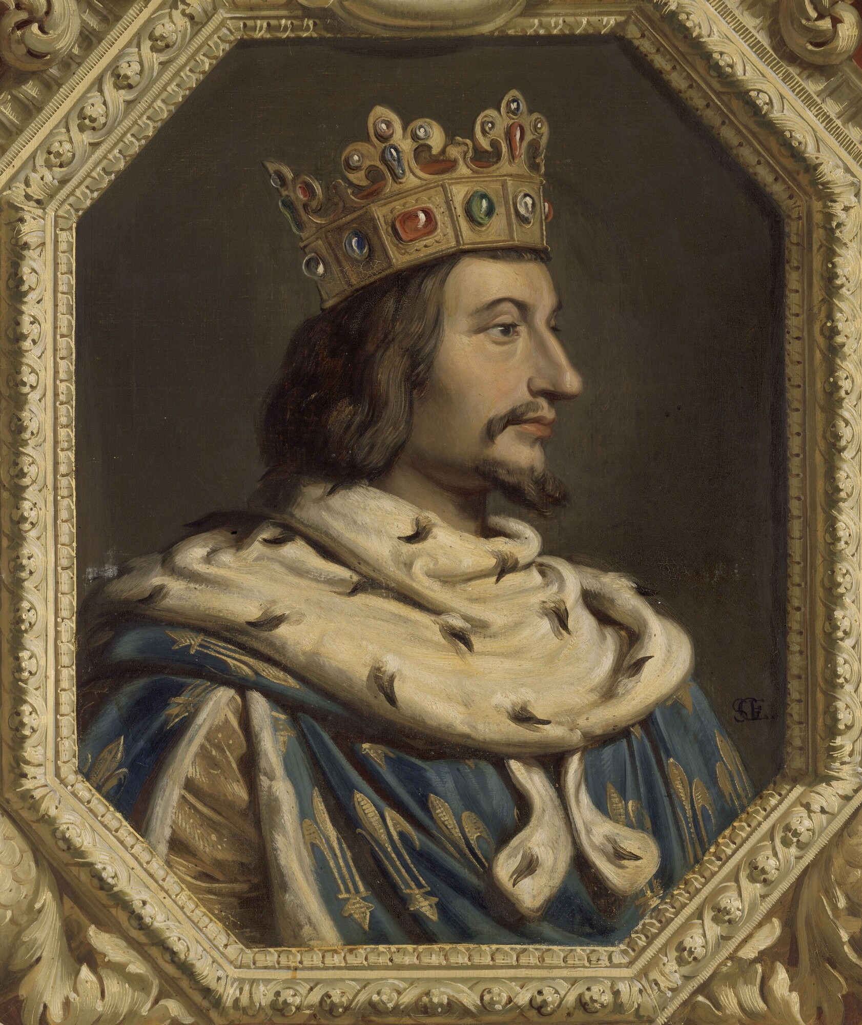 This painting belongs to the Portraits of Kings of France, a series of portraits commissioned between 1837 and 1838 by Louis Philippe I and painted by various artists for the Musée historique de Versailles.